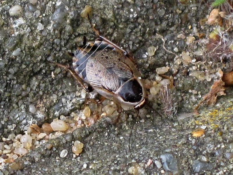 Ectobius sylvestris (Lesser cockroach) female, Nijmegen, the Netherlands